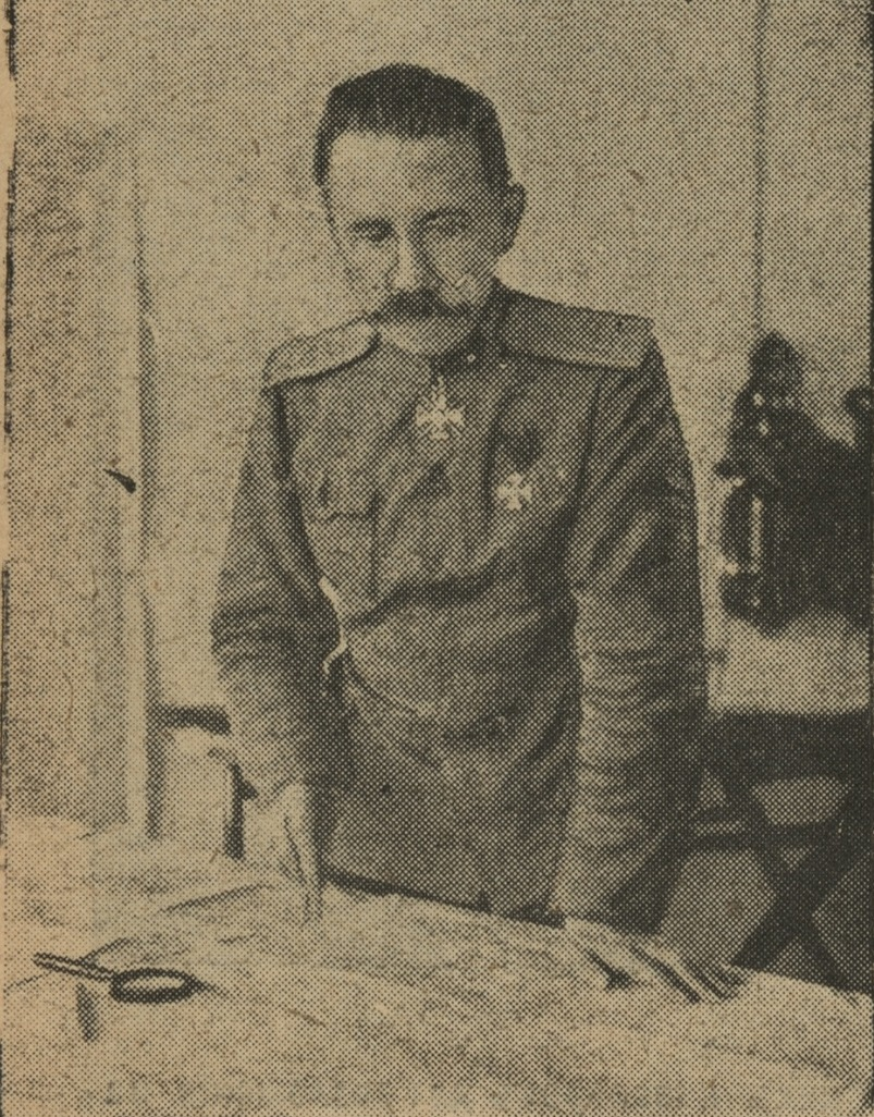 Photo of Vladislav Napoleonovich Klembovsky